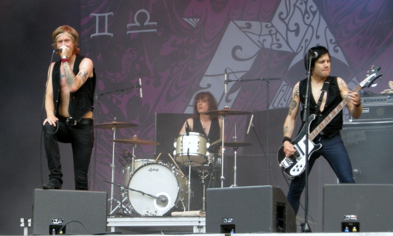 The (International) Noice Conspiracy, at Sonisphere 2009.jpg